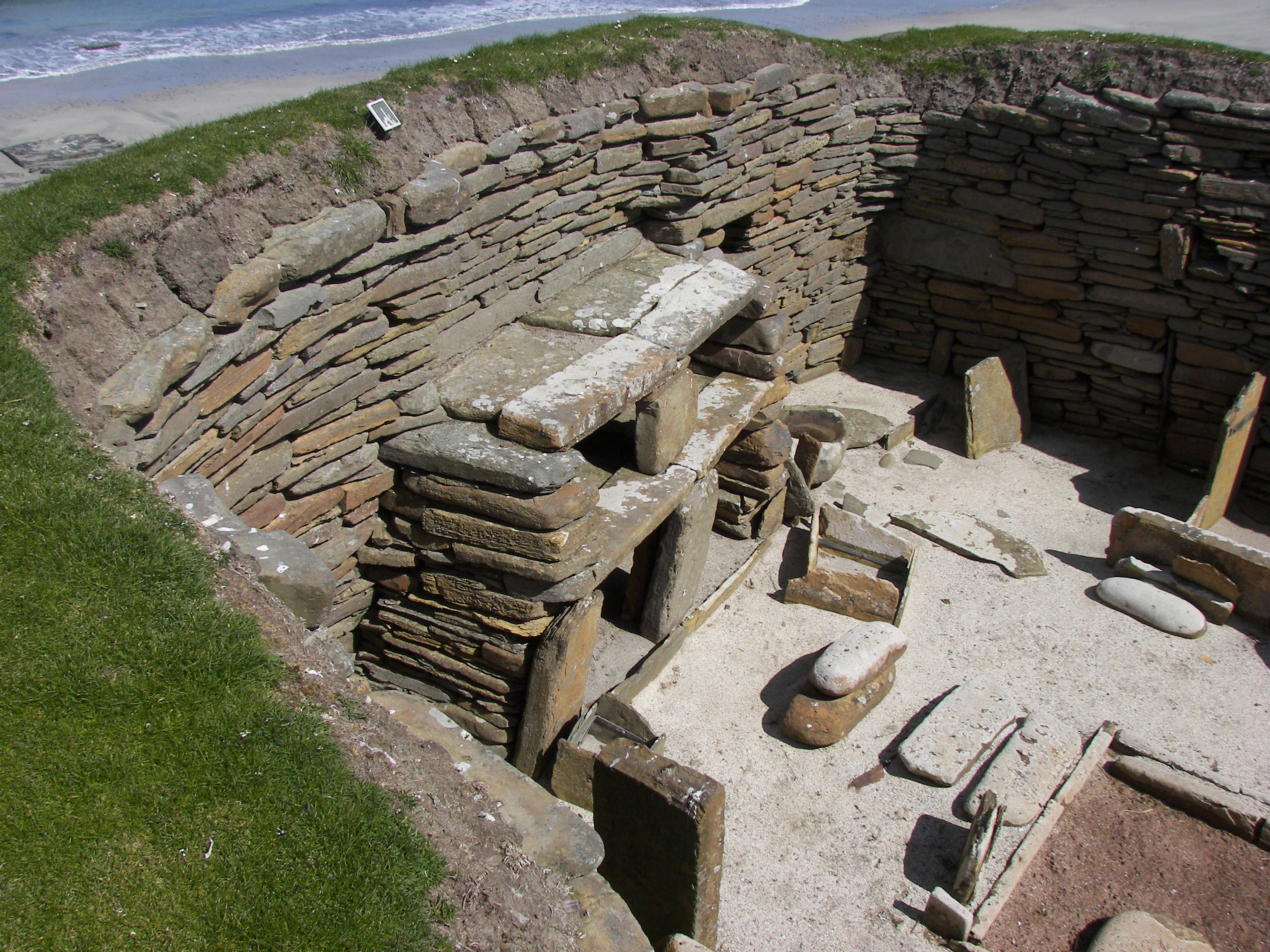 House 1 of Skara Brae.